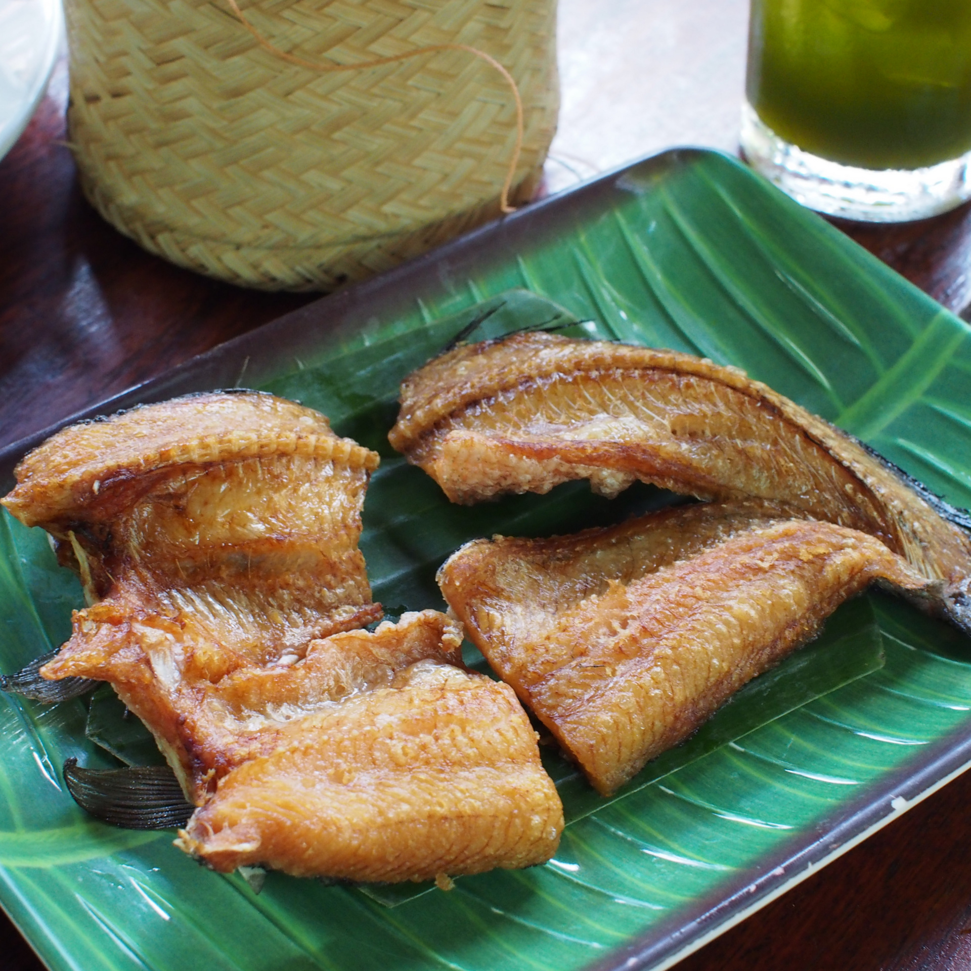 Pla chon thot (Thai script: ปลาช่อนทอด) is deep-fried snake-head fish which has first been salted and sun-dried.